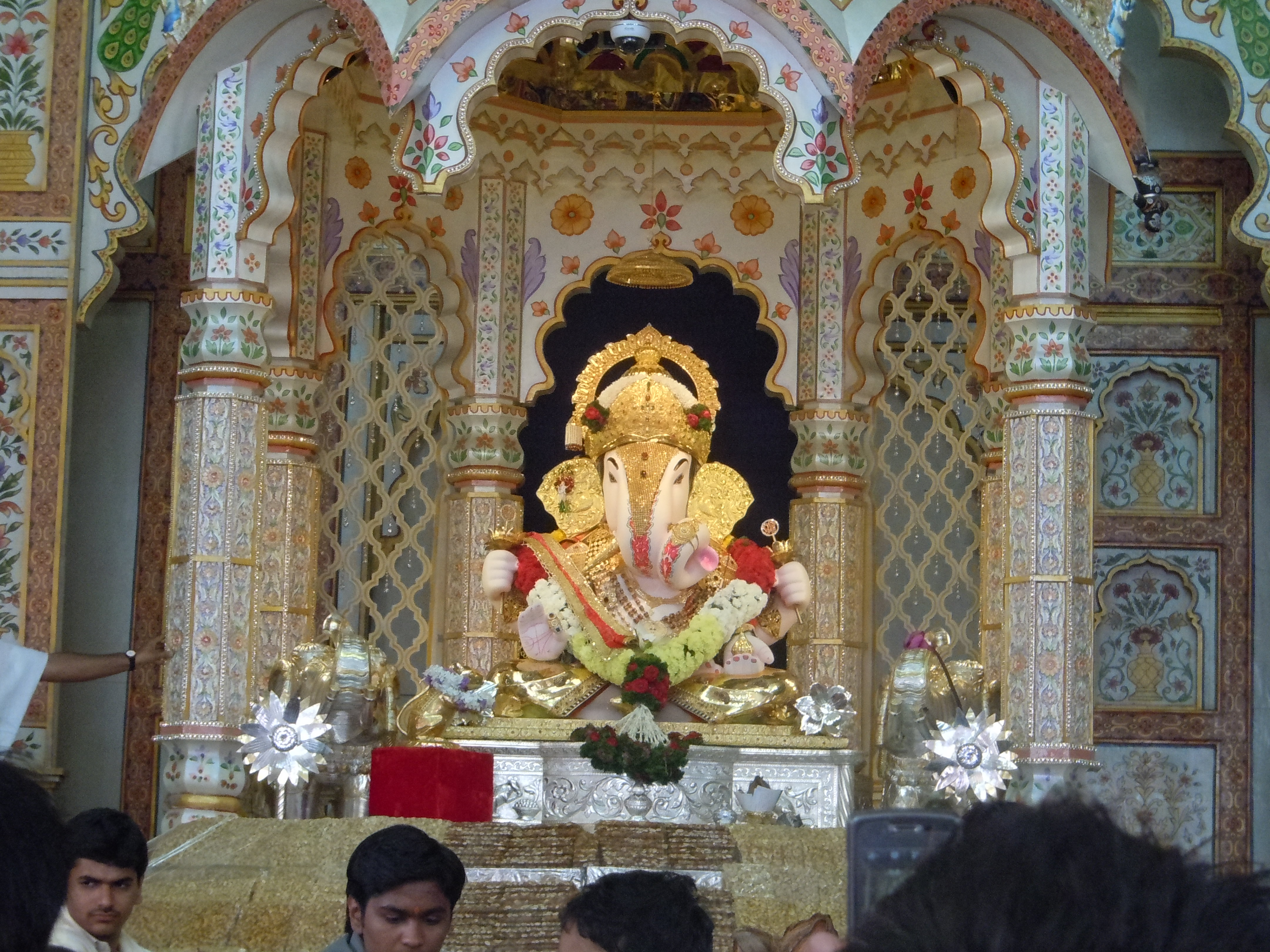 Shreemant Dagdushet Halwai Ganpati